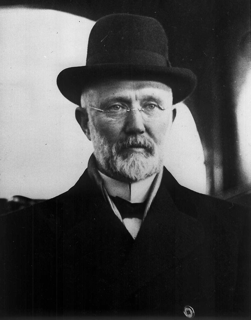 Sir Joseph Wesley Flavelle circa 1918 Source: City of Toronto Archives